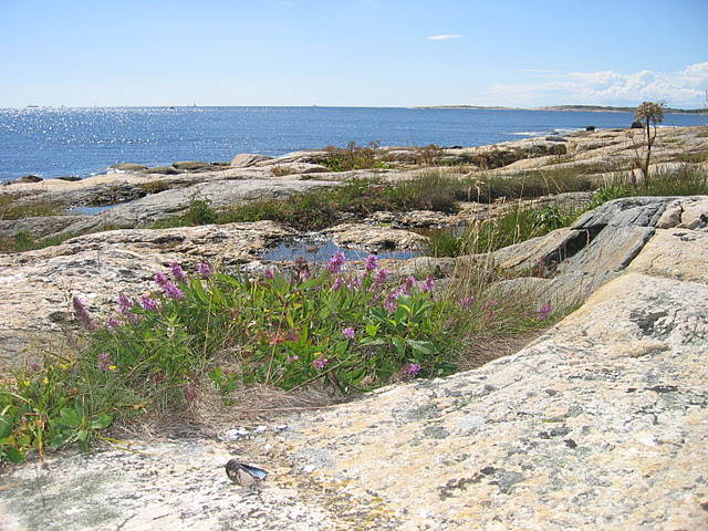 Vegetation in Landfasten, Ytre Hvaler national park